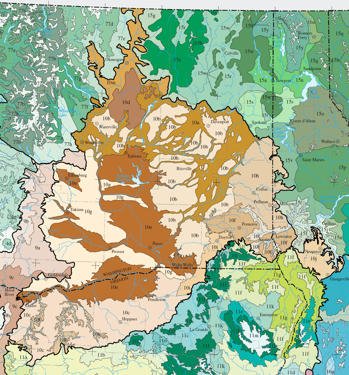 Level IV ecoregions in the Columbia Plateau ecoregion — as defined by the EPA. For more information about these ecoregions, see : Ecoregions. This map is a draft and may now be slightly outdated.